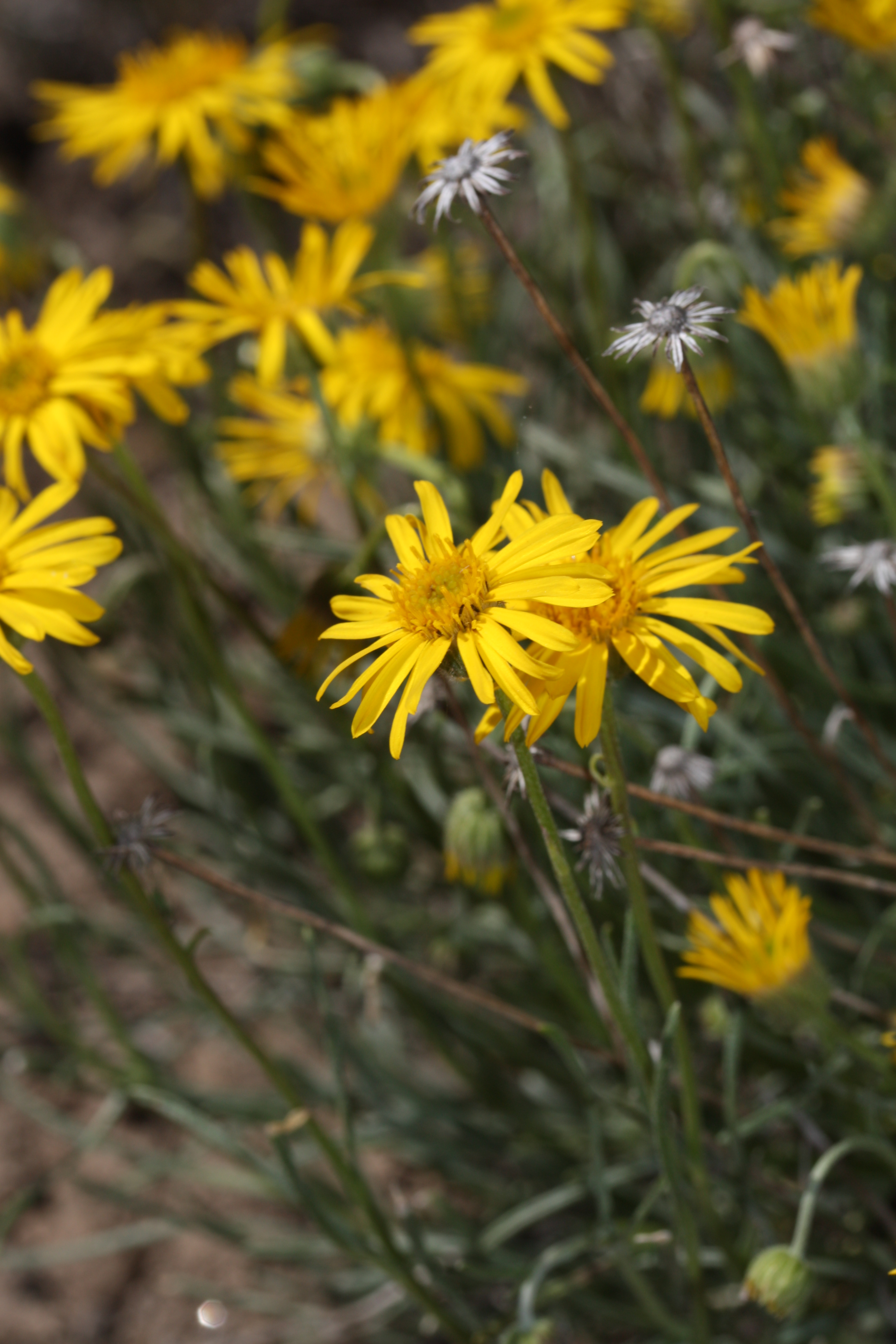 Desert Yellow Fleabane, Desert Yellow Daisy, Lineleaf Fleabane